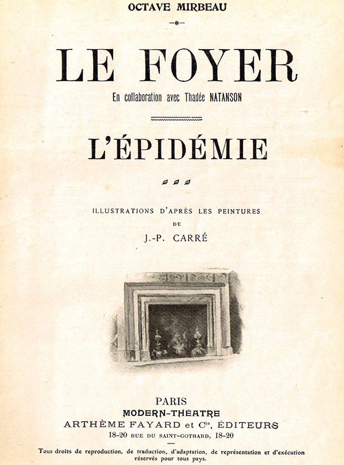 Front Page of Home (1908) by Octave Mirbeau (1848-1917) and Thadée Natanson (1868-1951)